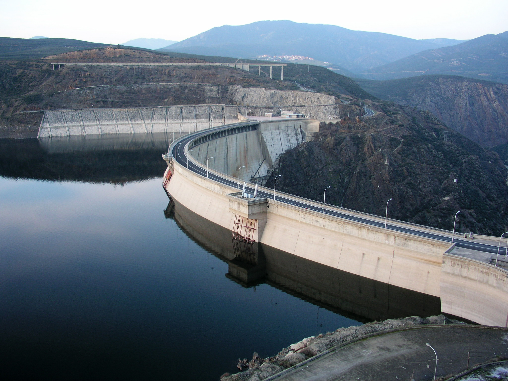 The Atazar Dam, Madrid, Spain